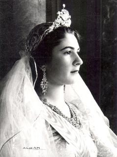 Queen Farida of Egypt, first wife of King Farouk I, official wedding picture